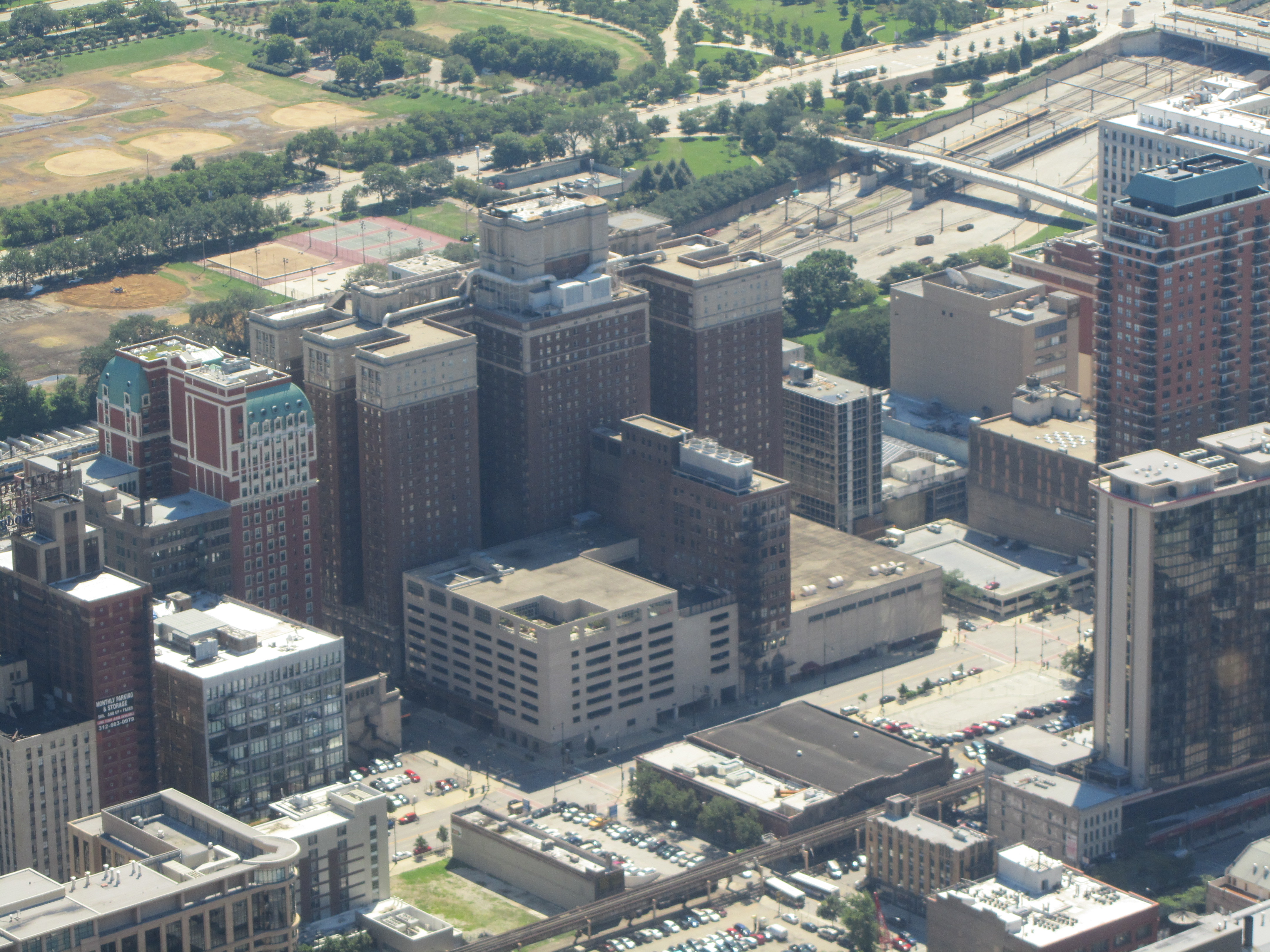 Hilton Hotel, Chicago, backview taken from Sears Tower